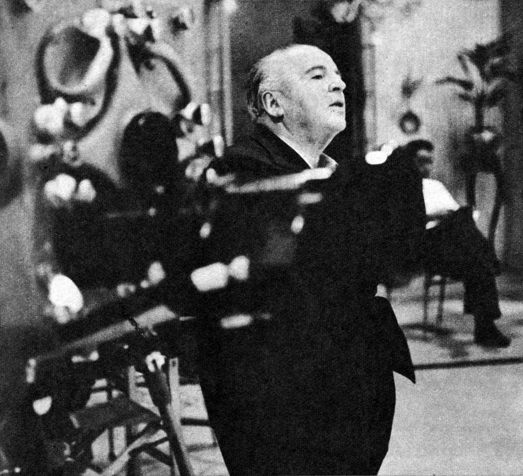 photo from the magazine Radiocorriere (1963)